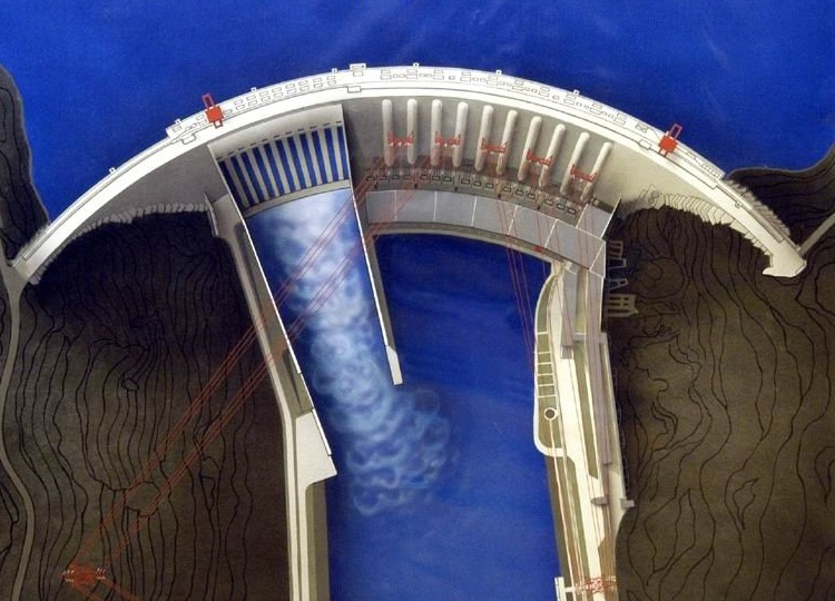 Computer generated model of the Sayano–Shushenskaya Dam in Russia (cropped version).